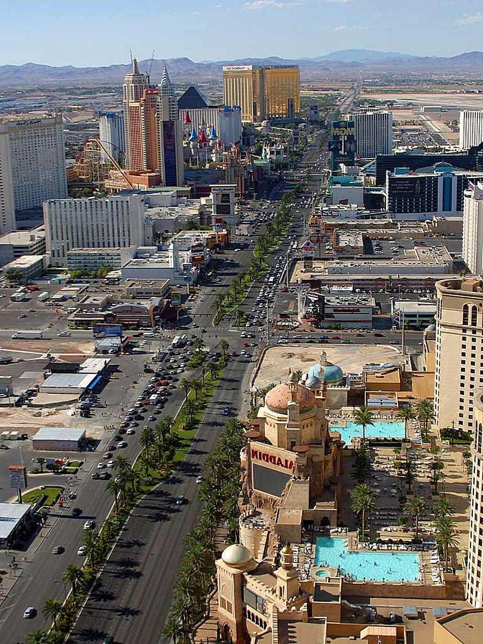 Image title: Las Vegas Eiffel tower strip Image from Public domain images website